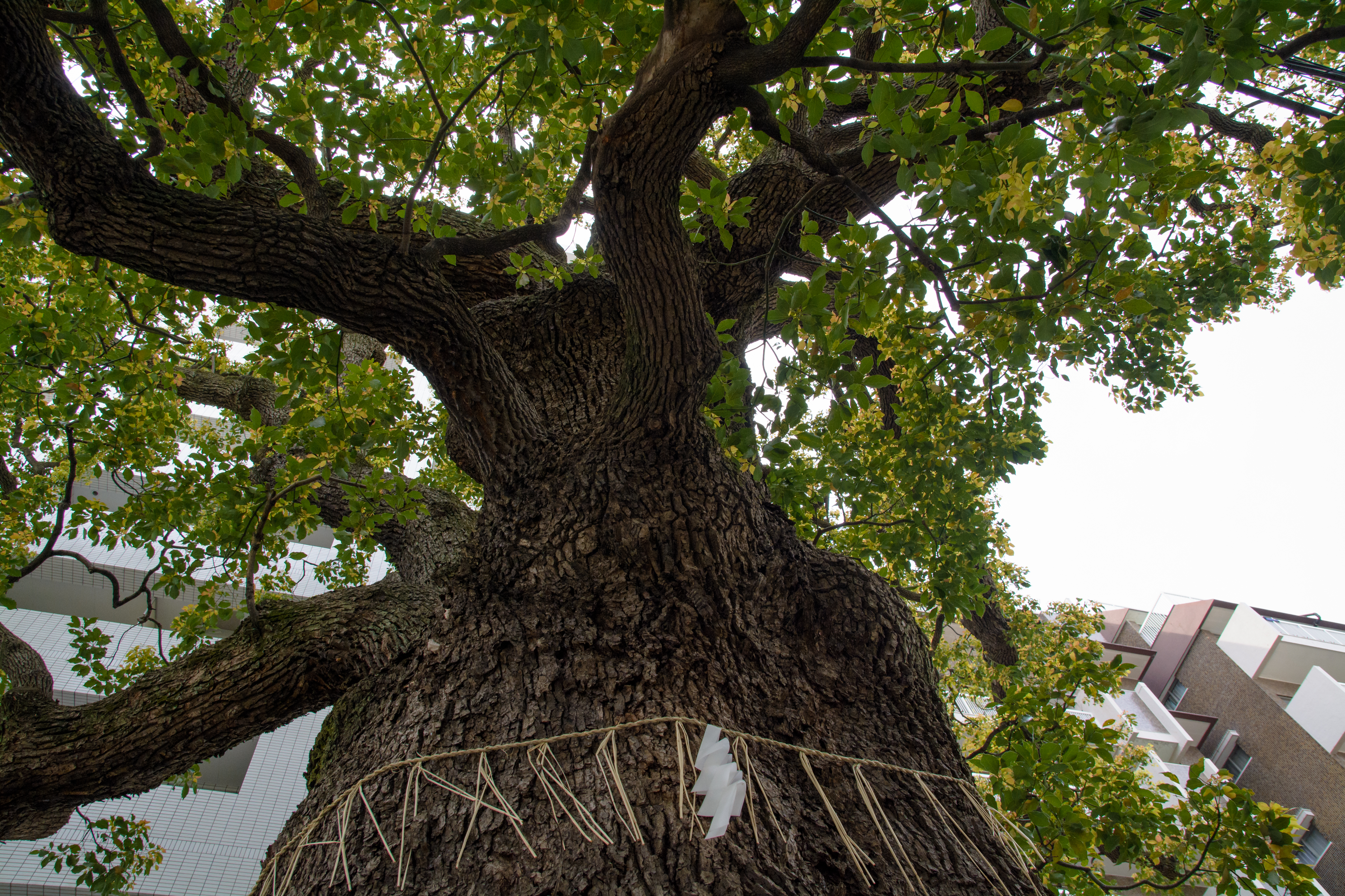 Camphor tree in Hongō, Tokyo